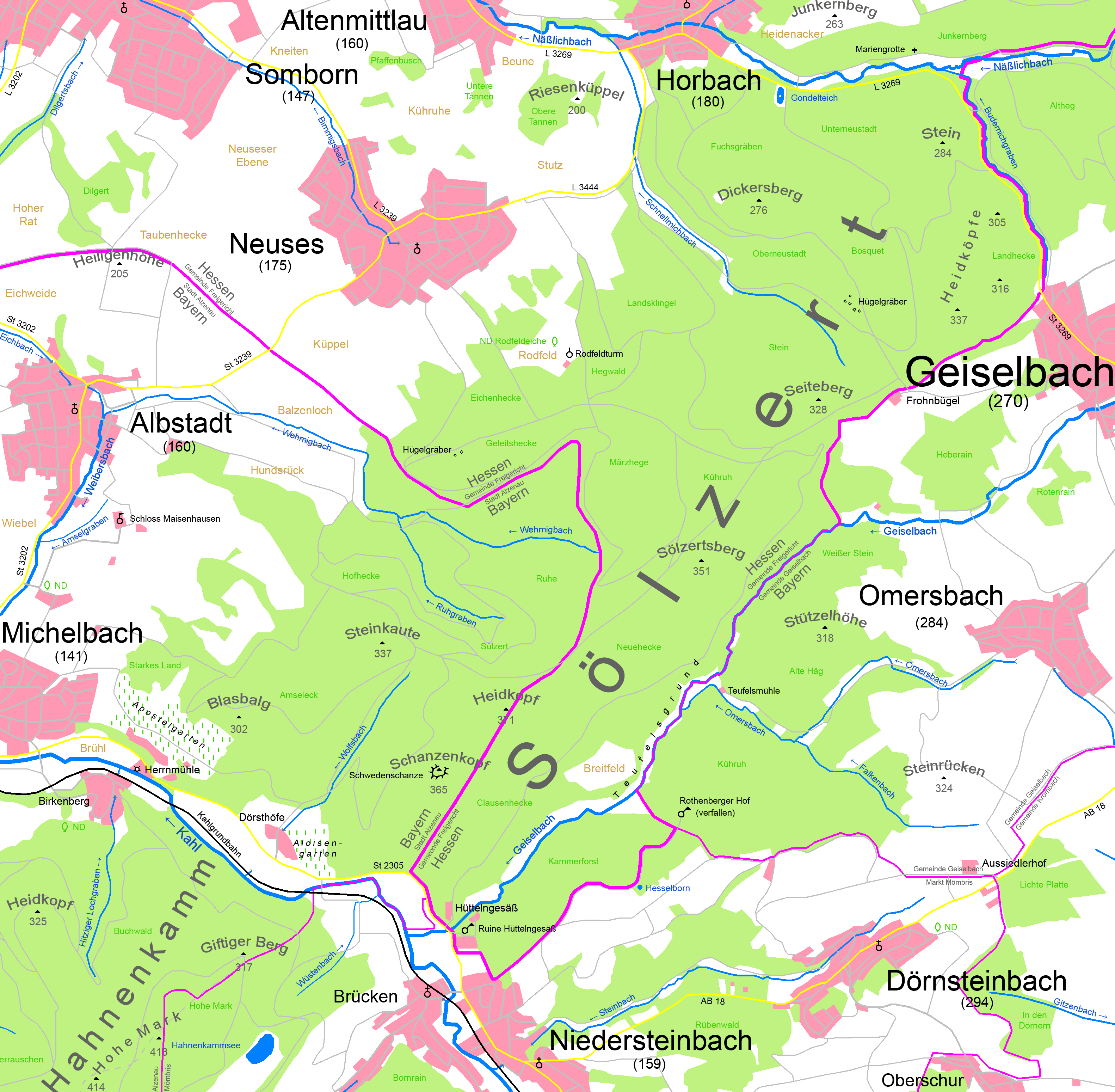 Map of the Sölzert on the western edge of the Spessart in Bavaria and Hesse Settlement area Forest Grassland, Meadow Body of water Ruin Church Chapel, Grotto Observation tower Tumuli Watermill Main street Side street Agricultural road and Forest road Railway State border Mountain 371 Above sea level Fink Field name Natural monument Circular rampart